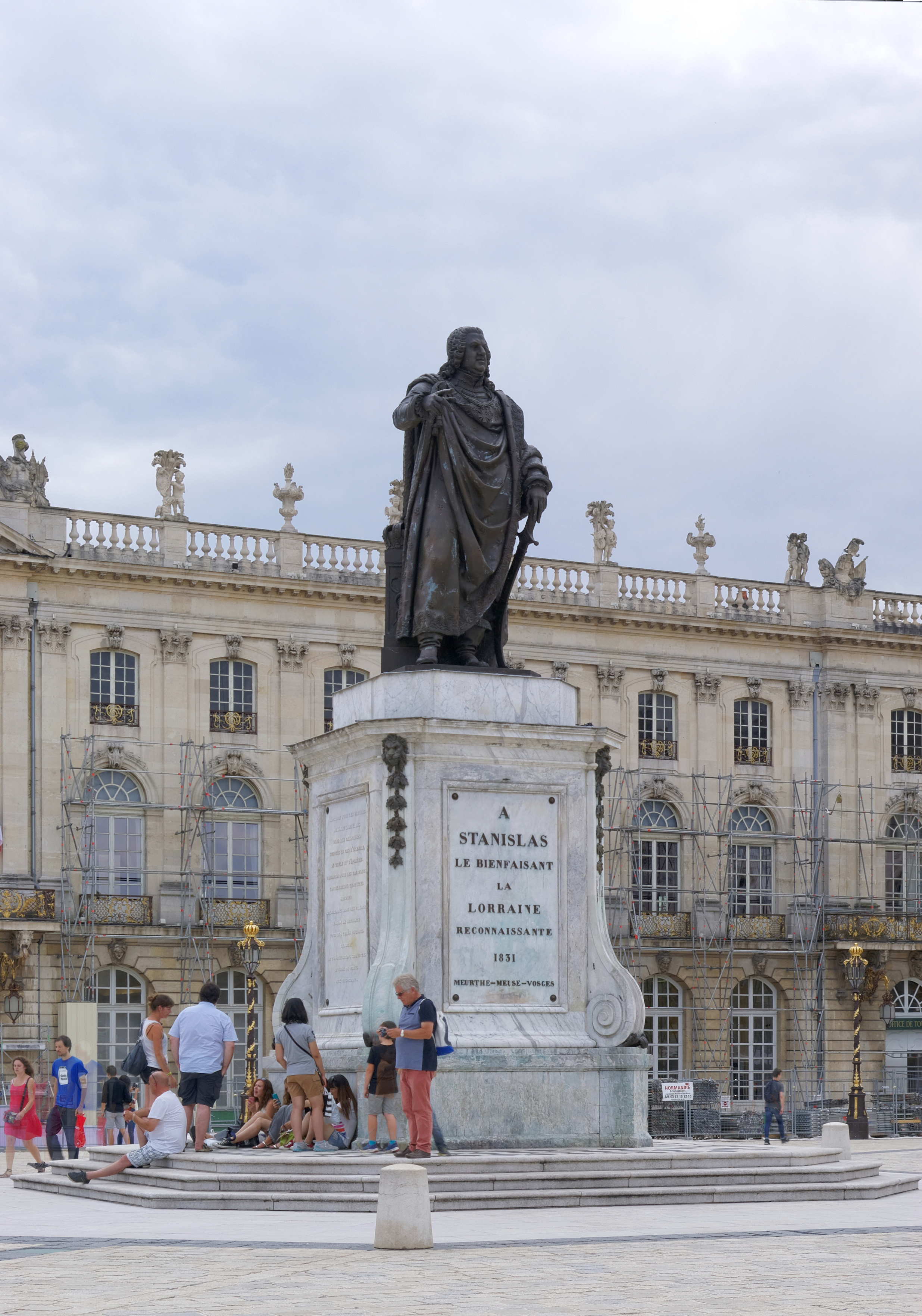 France, Nancy, Place Stanislas